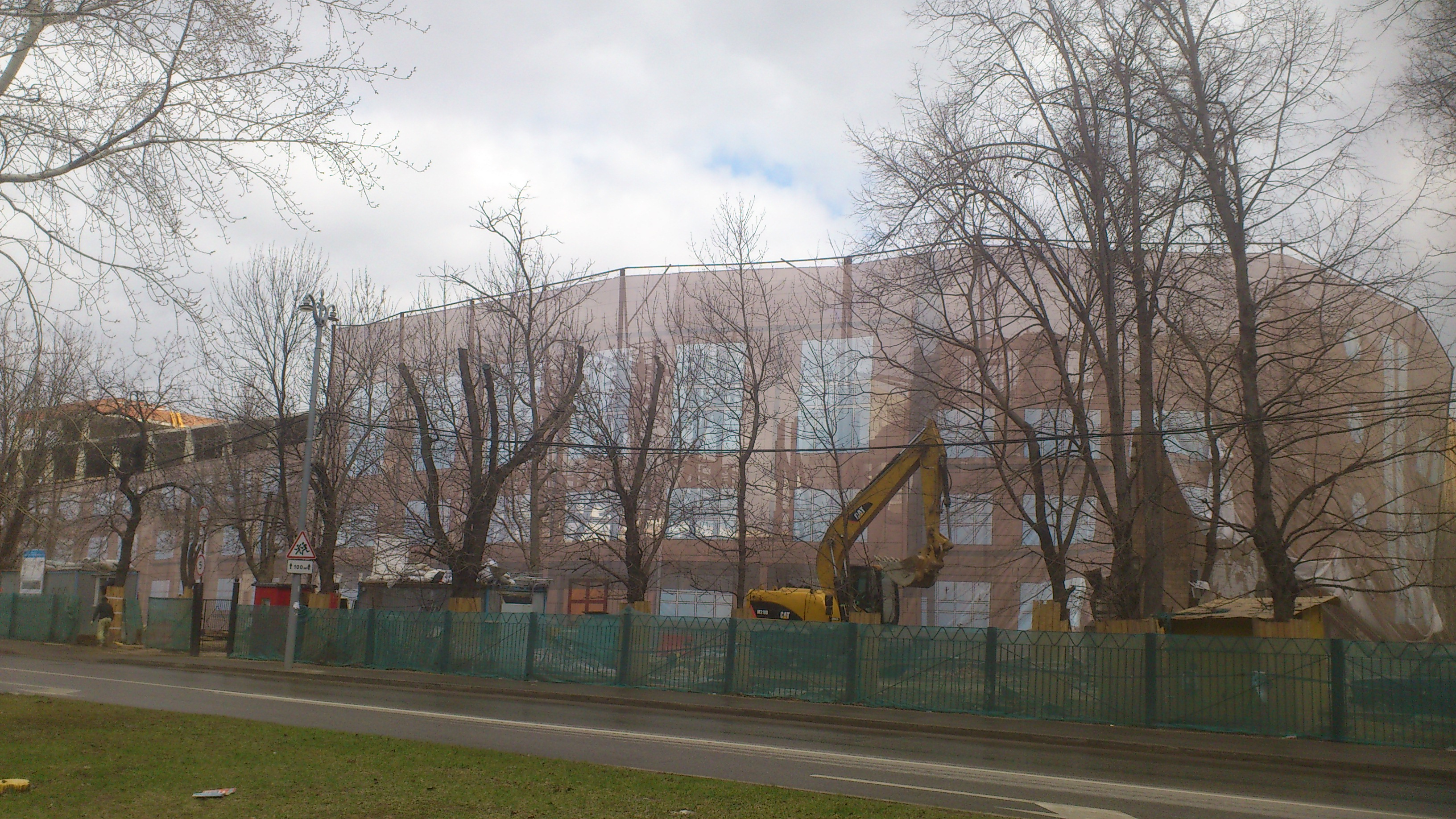 Reconstruction of the old building of the Moscow School 201